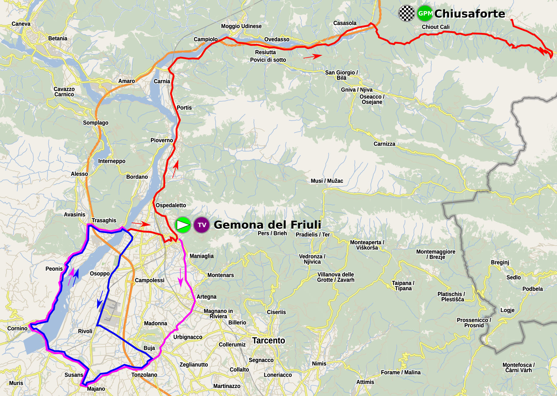 Map of stage 9 from Giro donne 2019